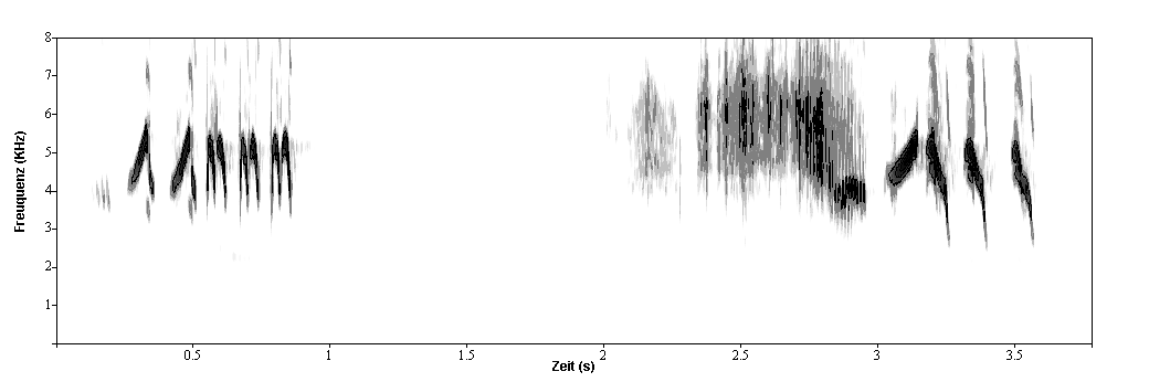 Sonagram of the song of Black Redstart (Phoenicurus ochruros)